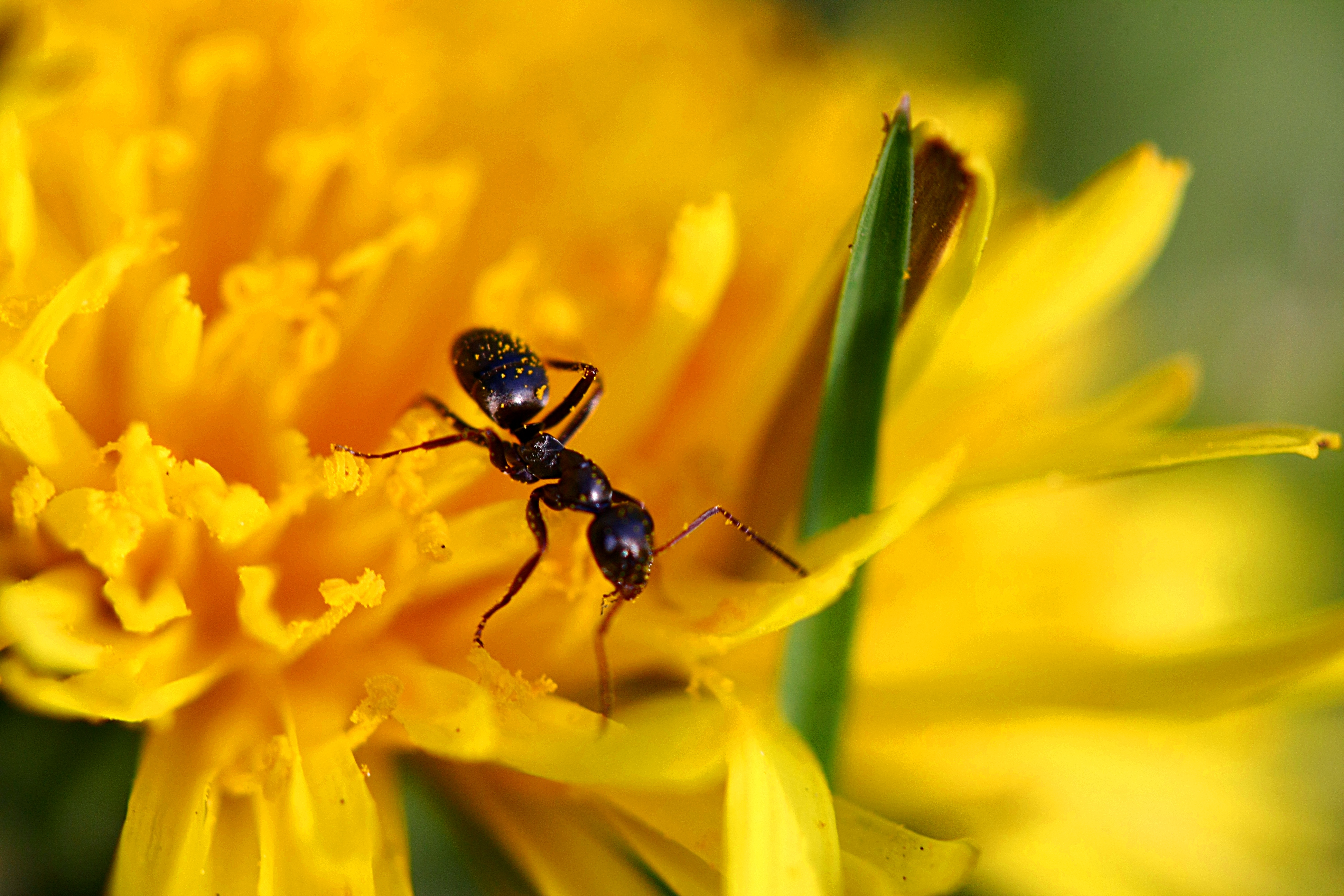 I've never seen ants trying to get food out of a flower before, in this case, this small ant was digging deep into this dandelion and I caught them on their way out. I missed the focus a bit on this, it reminds me that I need to take a ton of shots to make sure I get what I'm aiming for!